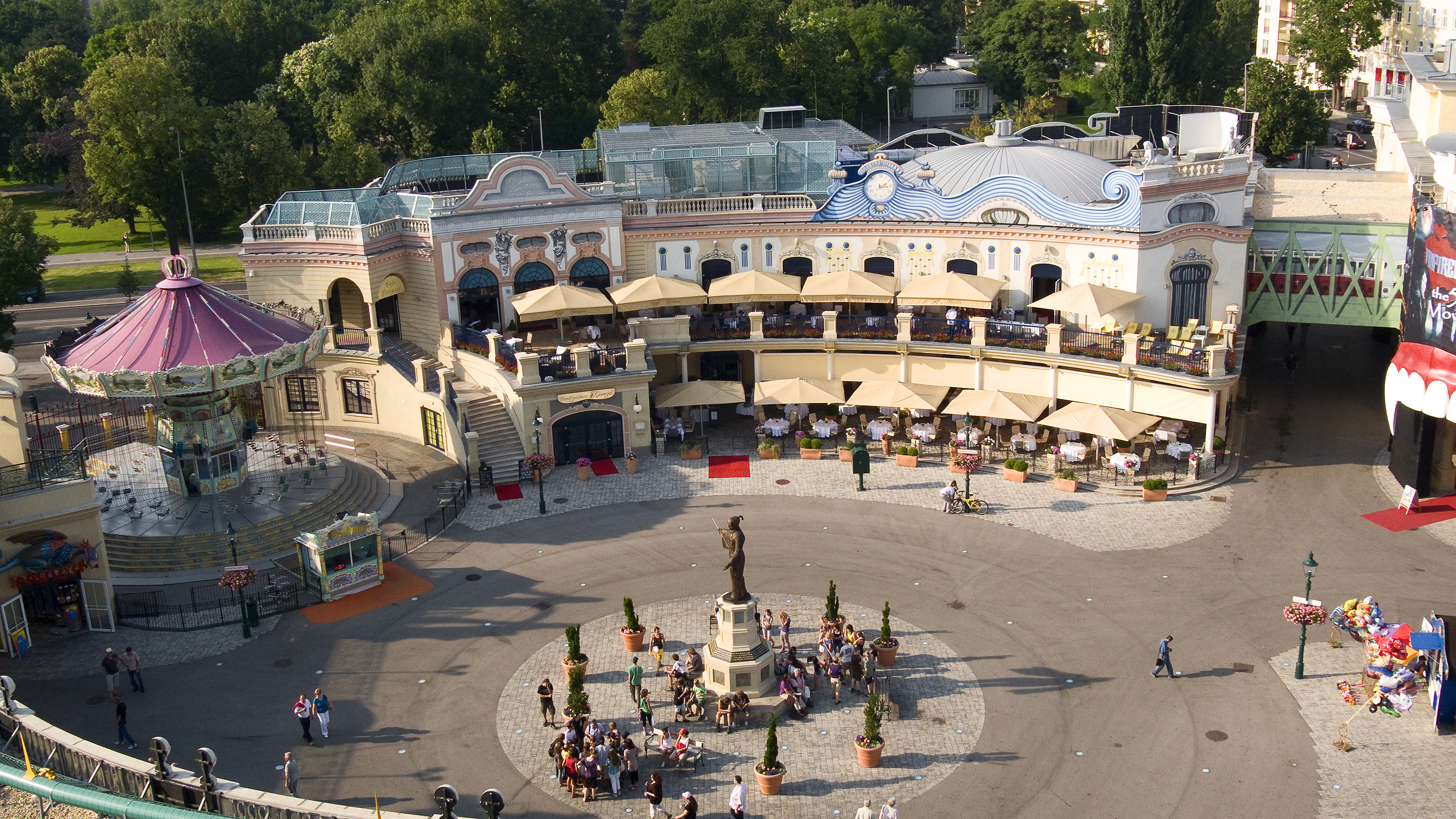 Square Riesenradplatz in Wiener Prater